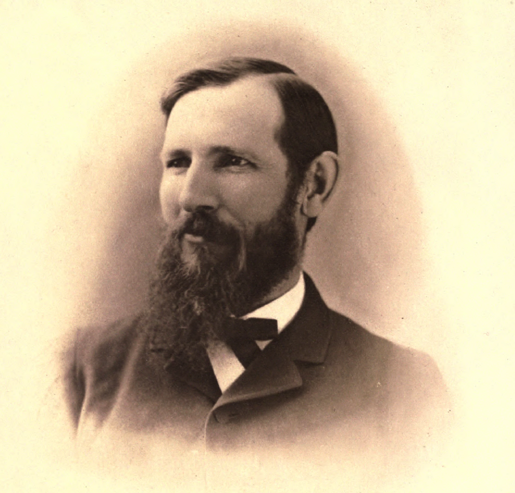 Portrait of Joel Asaph Allen (1838-1921)